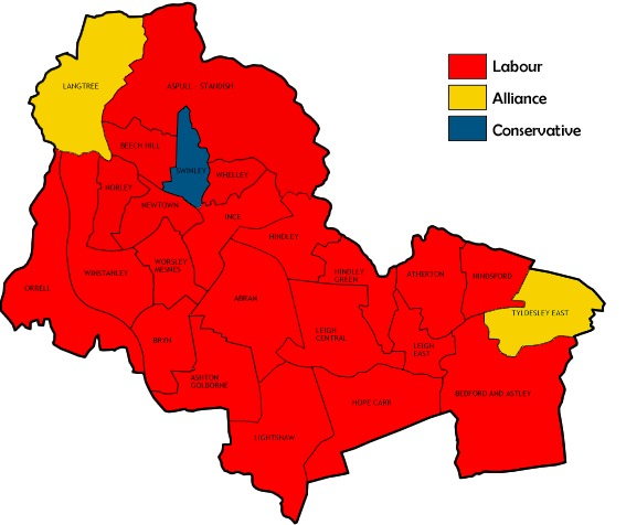 Wigan ward map with political colouring.